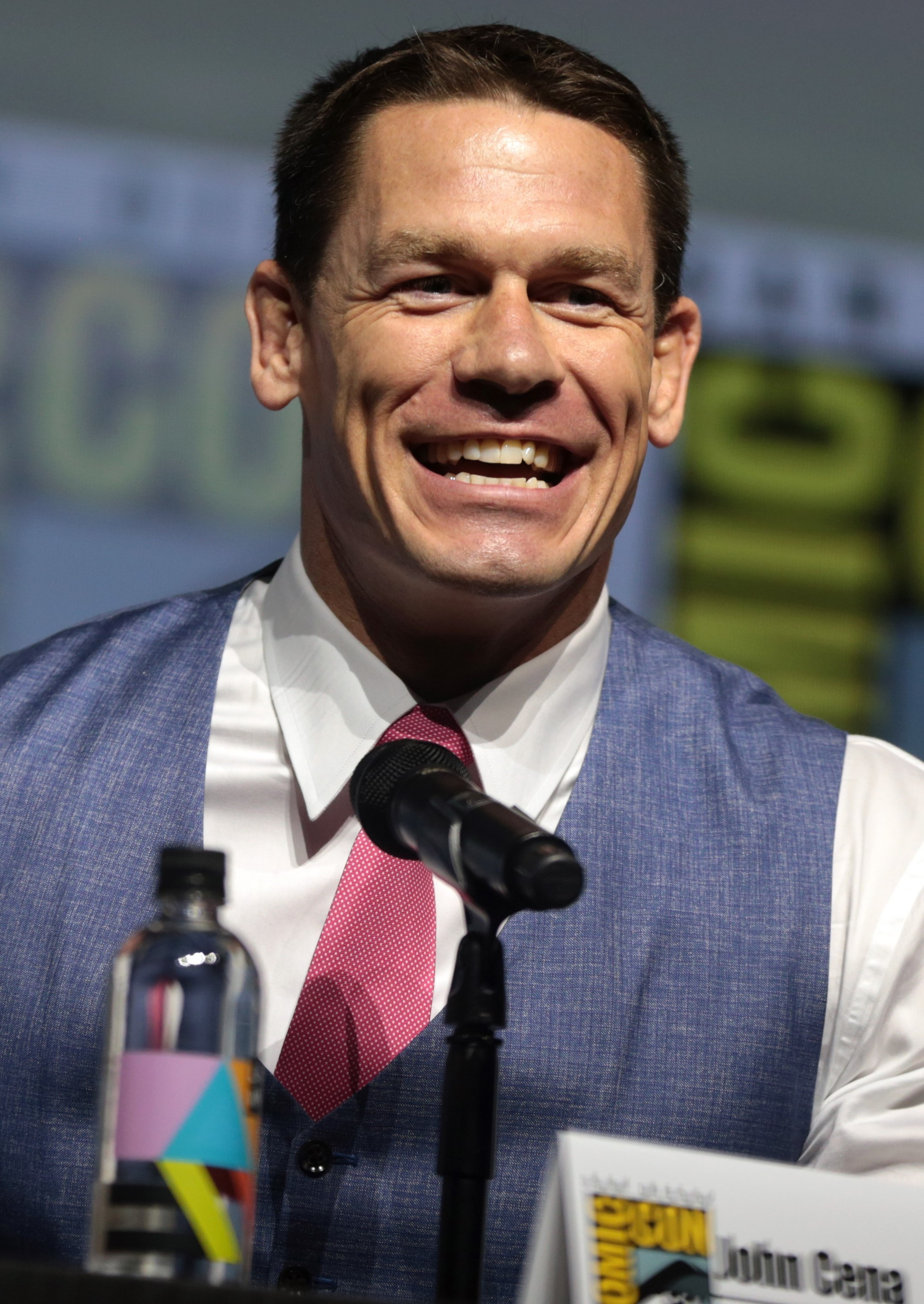 John Cena speaking at the 2018 San Diego Comic Con International, for "Bumblebee", at the San Diego Convention Center in San Diego, California.